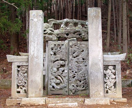 Ishizaku made by Torakichi Komatsu, at Kariyado, Shirakawa-shi, JAPAN